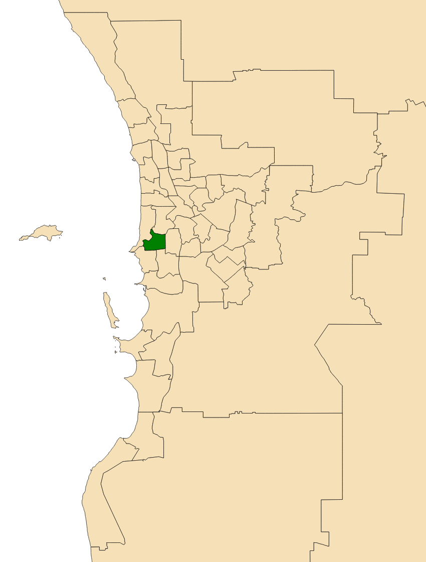 Location of the electoral district of Bicton in the Perth metropolitan area, Western Australia as of the 2017 WA state election.